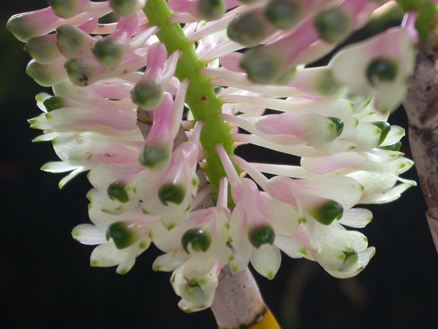 Coelandria smillieae